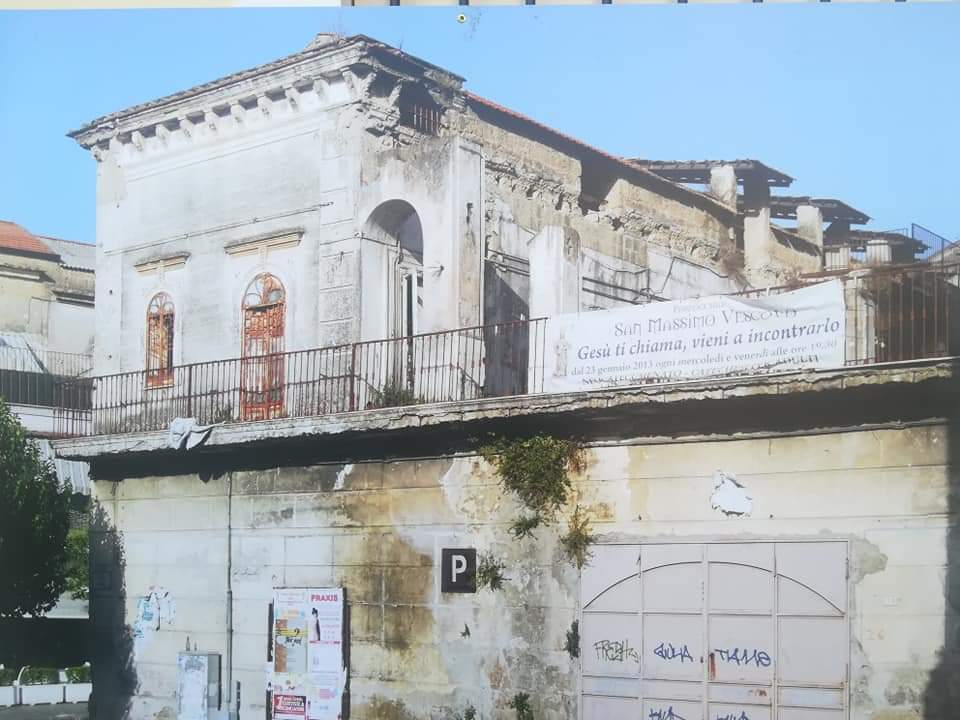 Prospetto laterale dell'ex Palazzo Migliaccio